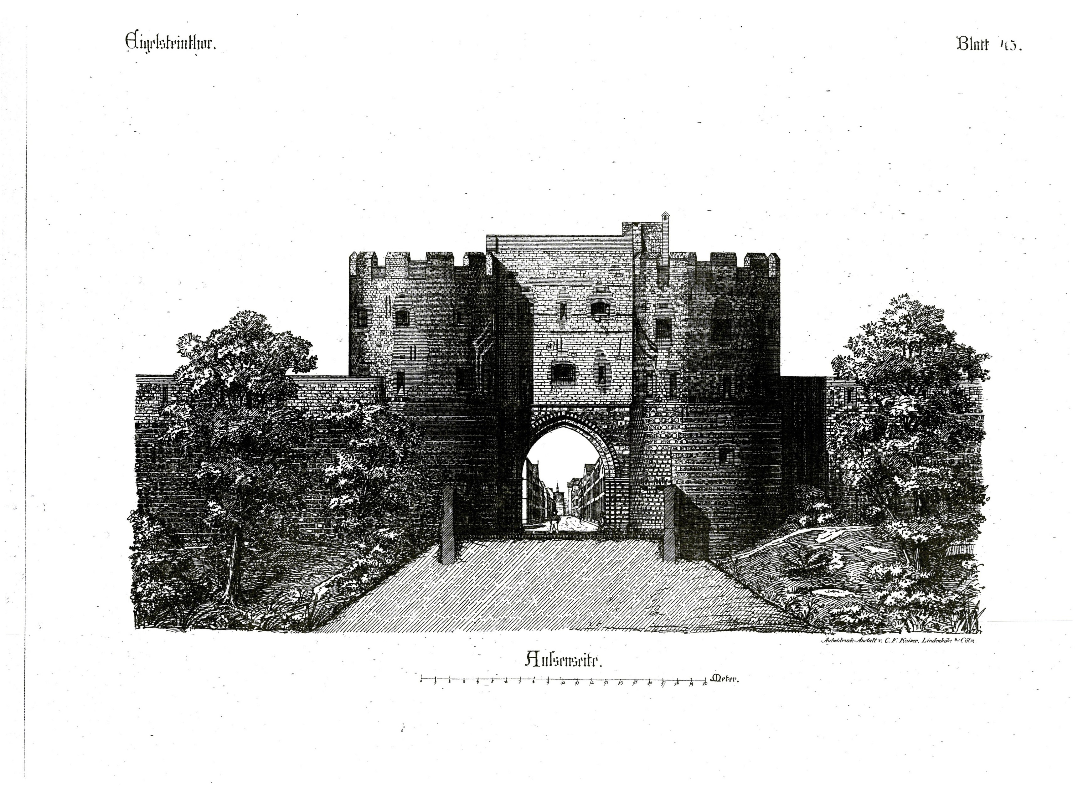 This is a scan of the historical document